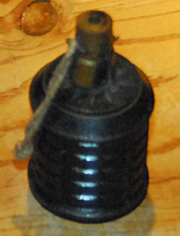 Type 99 'Kiska' Grenade